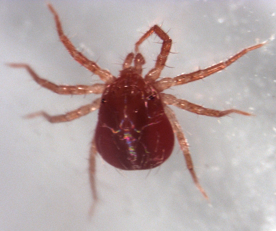 live adult ?Anystis sp.